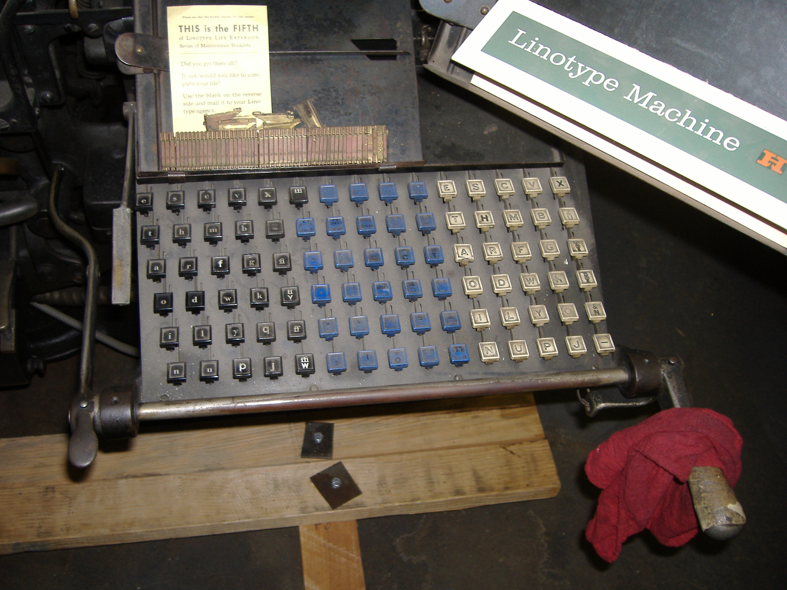 Wood Type Museum: Linotype typesetting machine (2)